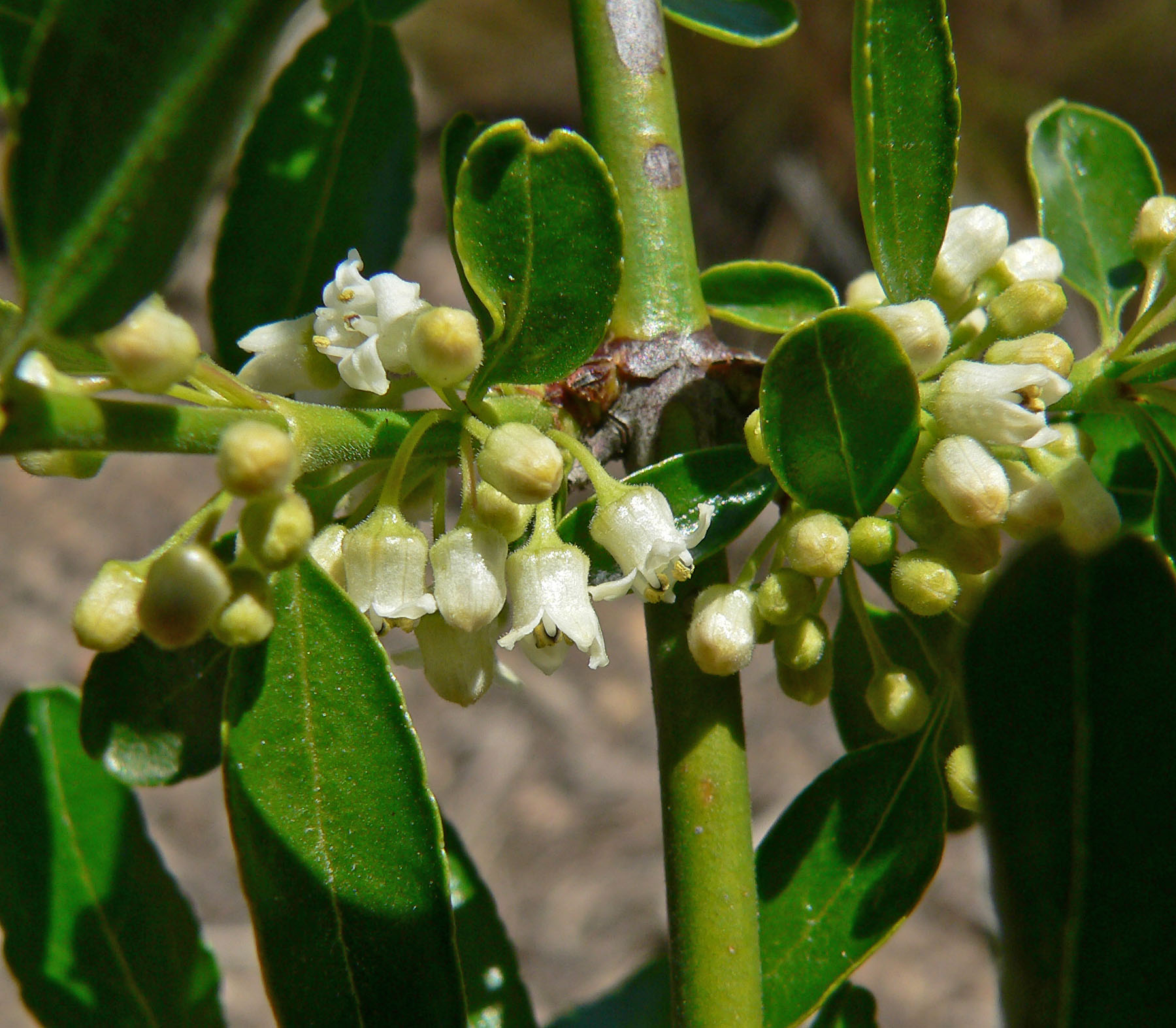 Discaria chacaye at the University of California Botanical Garden, Berkeley, California